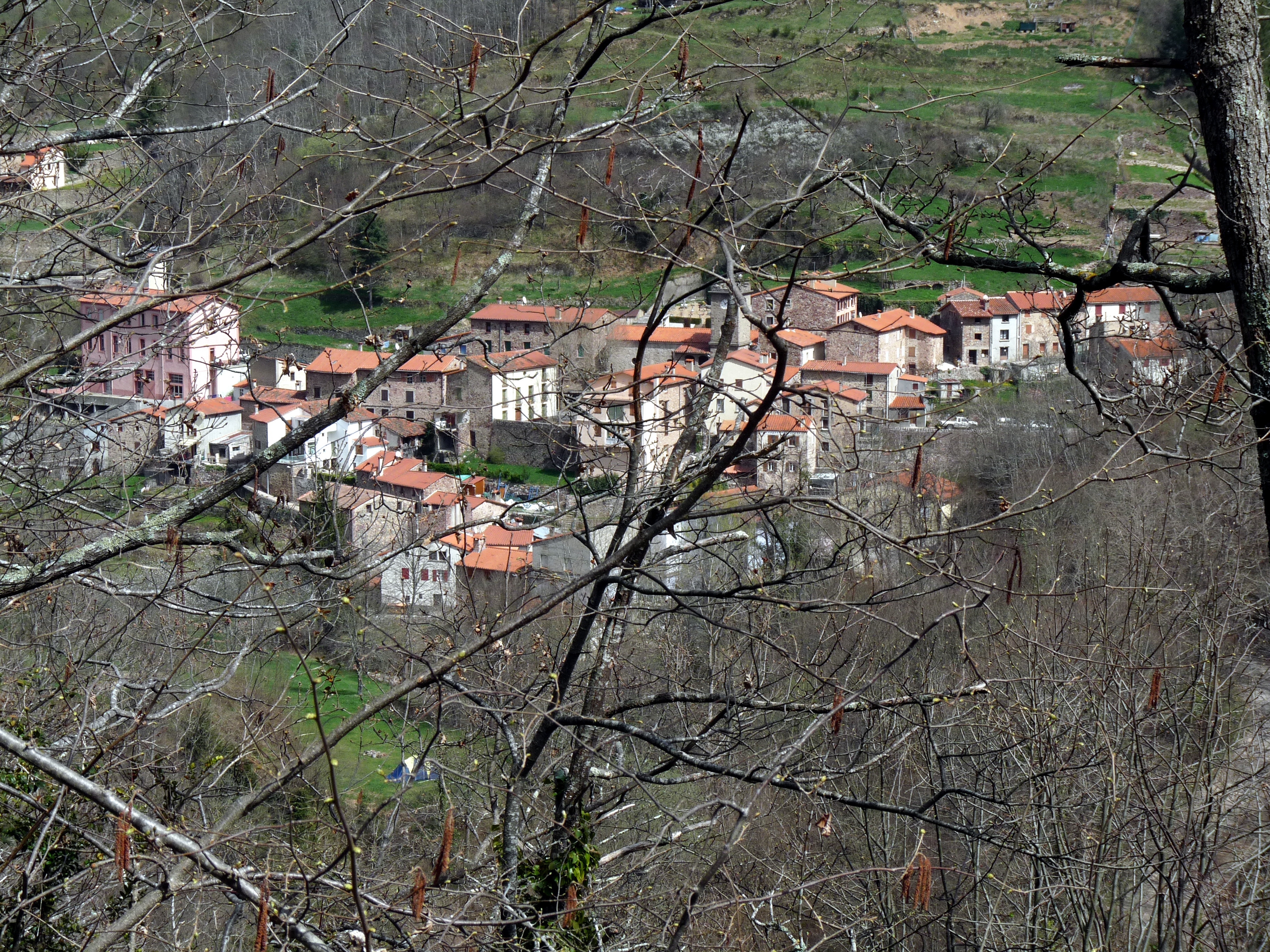 General view of the southest village of France called Lamanère